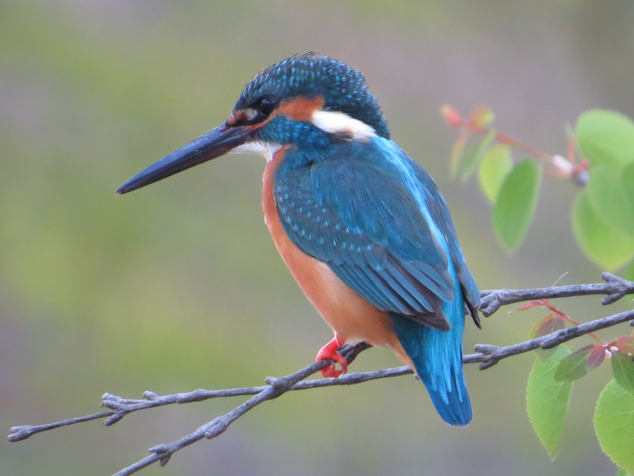 Common Kingfisher (Alcedo atthis bengalensis) on the branch in Japan.